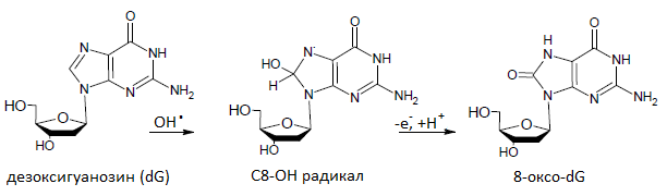 formation of 8-oxo-2'-deoxyguanosine